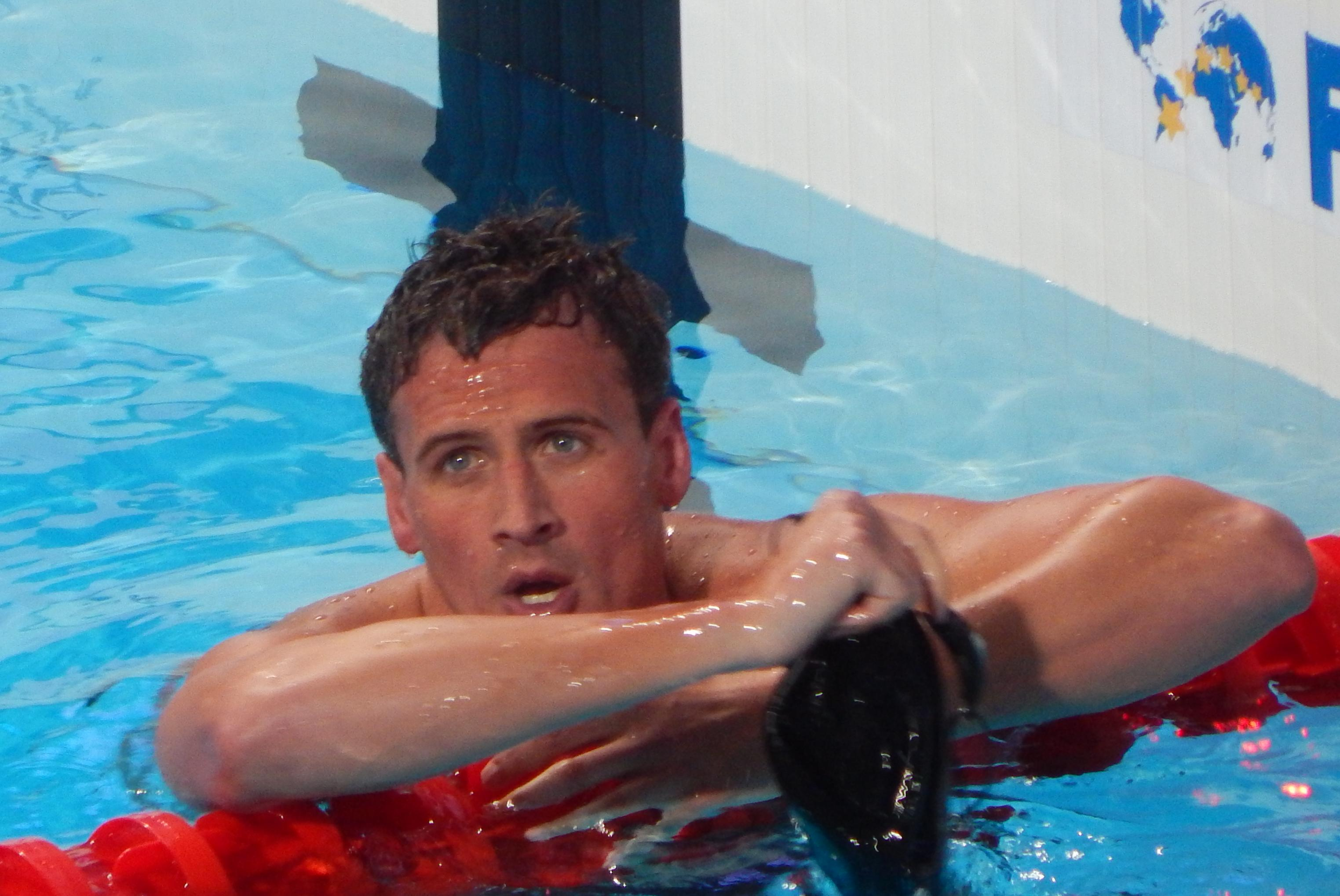 Ryan Lochte wins the second semi 200m freestyle in Kazan